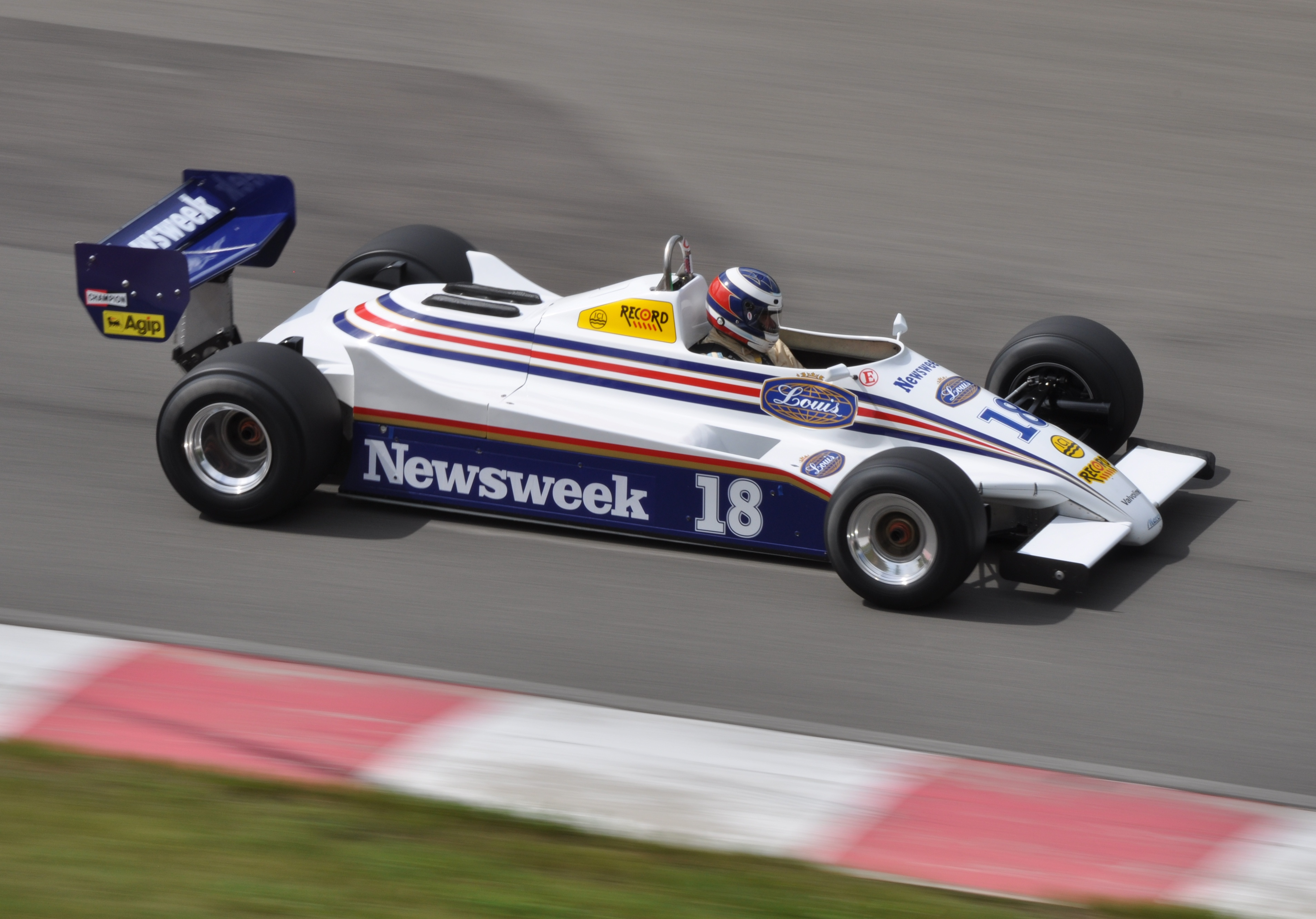 Chris Bender driving a Ram-March 821 Formula One racing car through The Esses at Circuit Mont-Tremblant, during the 2010 Legends of Motorsport meeting.